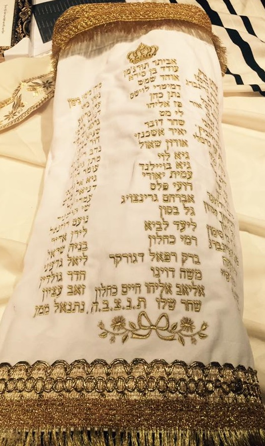 Tel Aviv Torah written for the 70 IDF soldiers lost in Tzuk Eitan